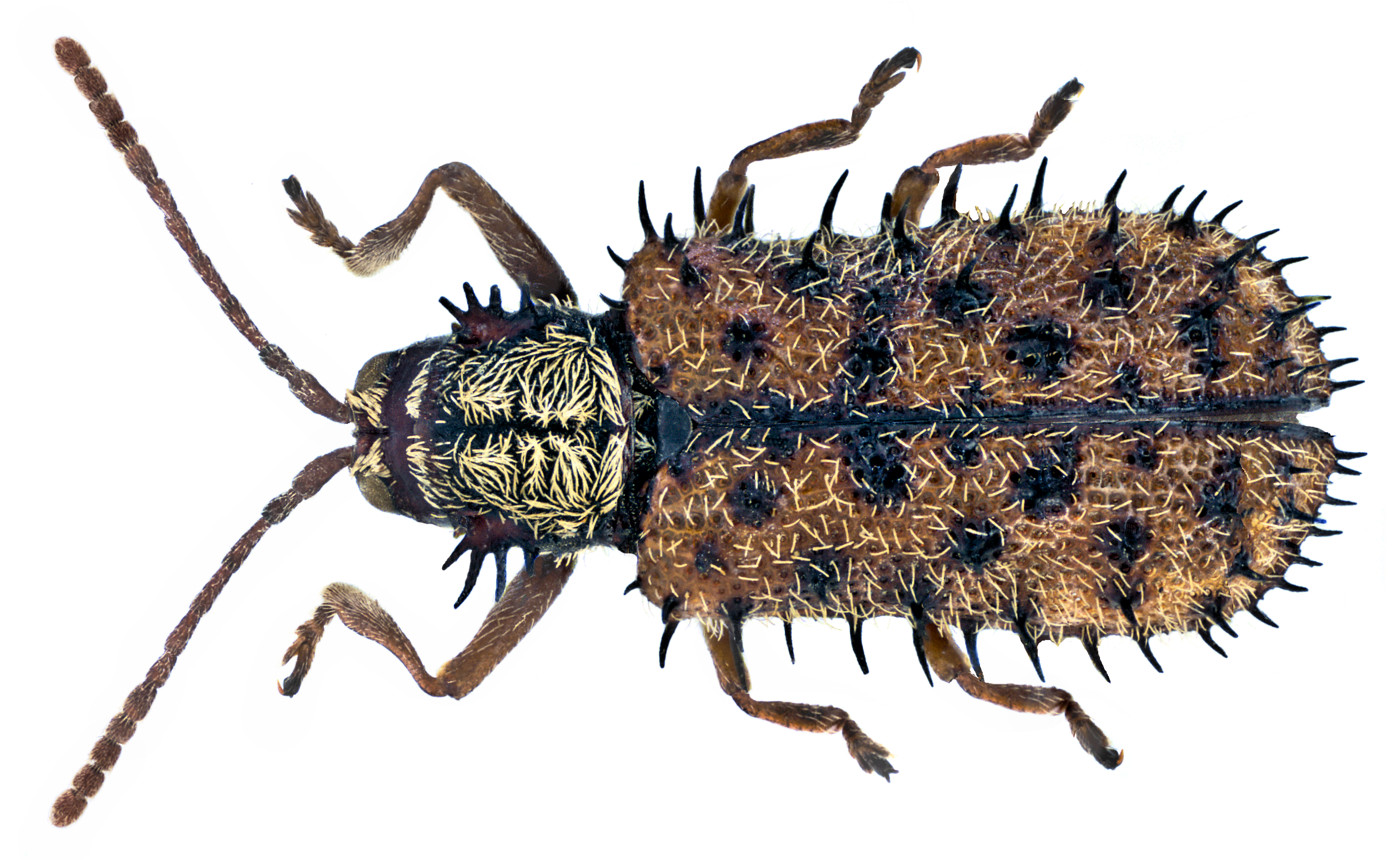 Family: Chrysomelidae Size: 6,3 mm Location: Spain, Canaray Islands, Isla de La Palma, Tijarafe, El Pinar, Hoya Grande, 1190 m leg. J.Schoenfeld, 9.IV.2009; det. D.Siede, 2013 Photo: U.Schmidt, 2014